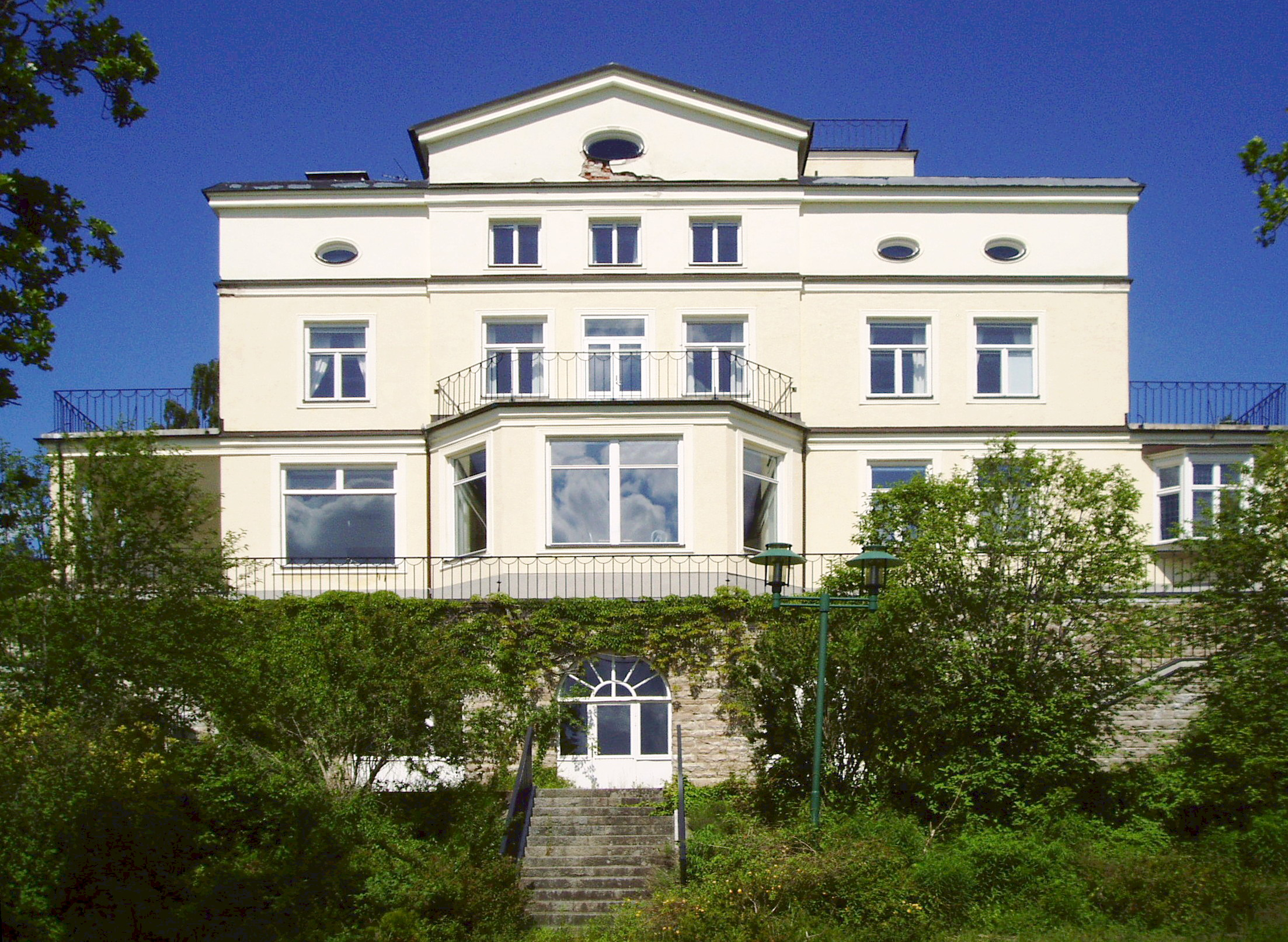 Graninge mansion, Nacka municipality, Sweden